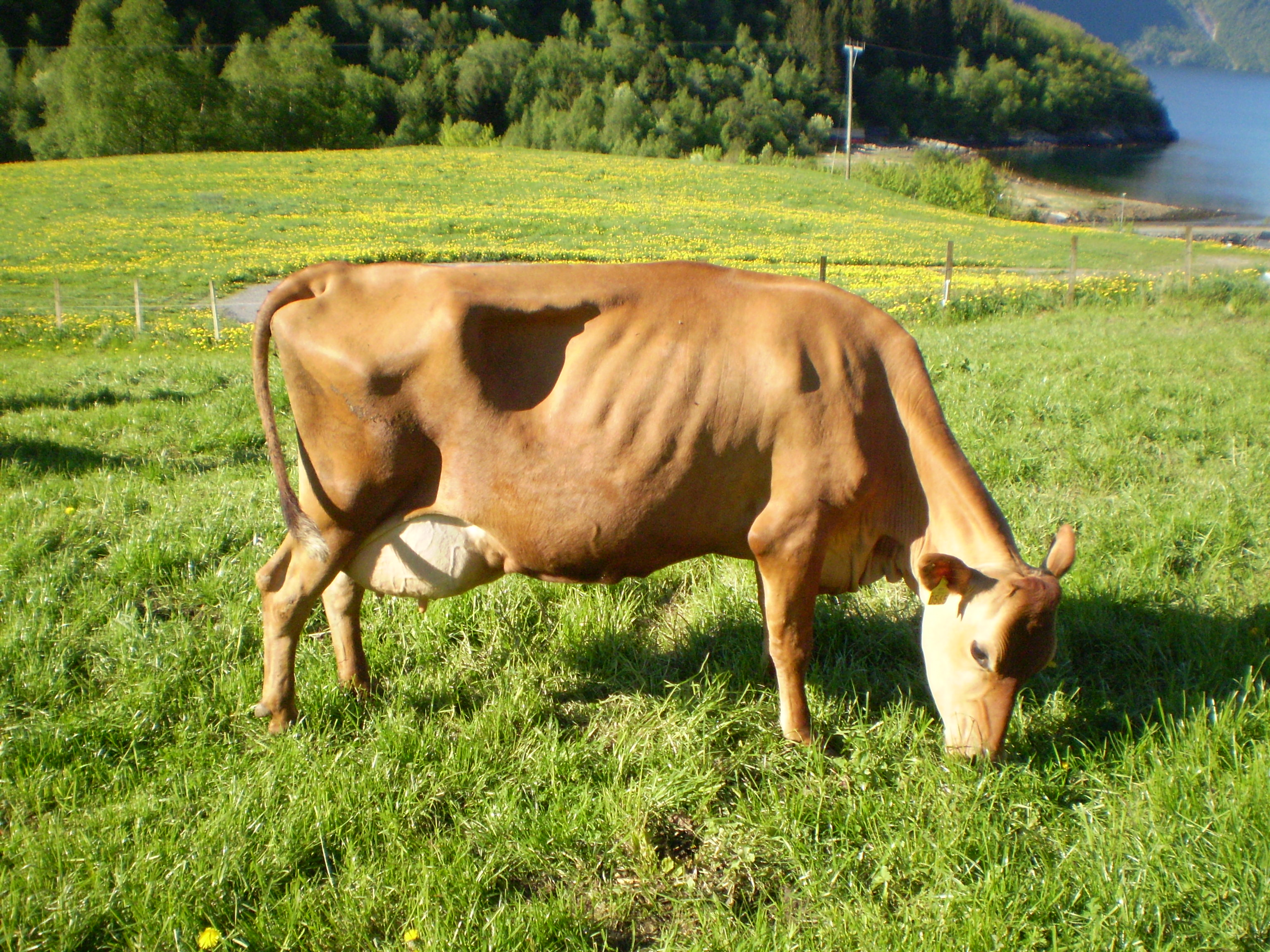 Animal